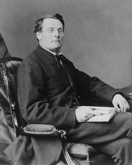 Edward Blake, eloquent lawyer and Premier of Ontario, 1871-1872, federal Liberal opposition leader in Ottawa, 1879-1887, and a key figure in the establishment of the Supreme Court for Canada.